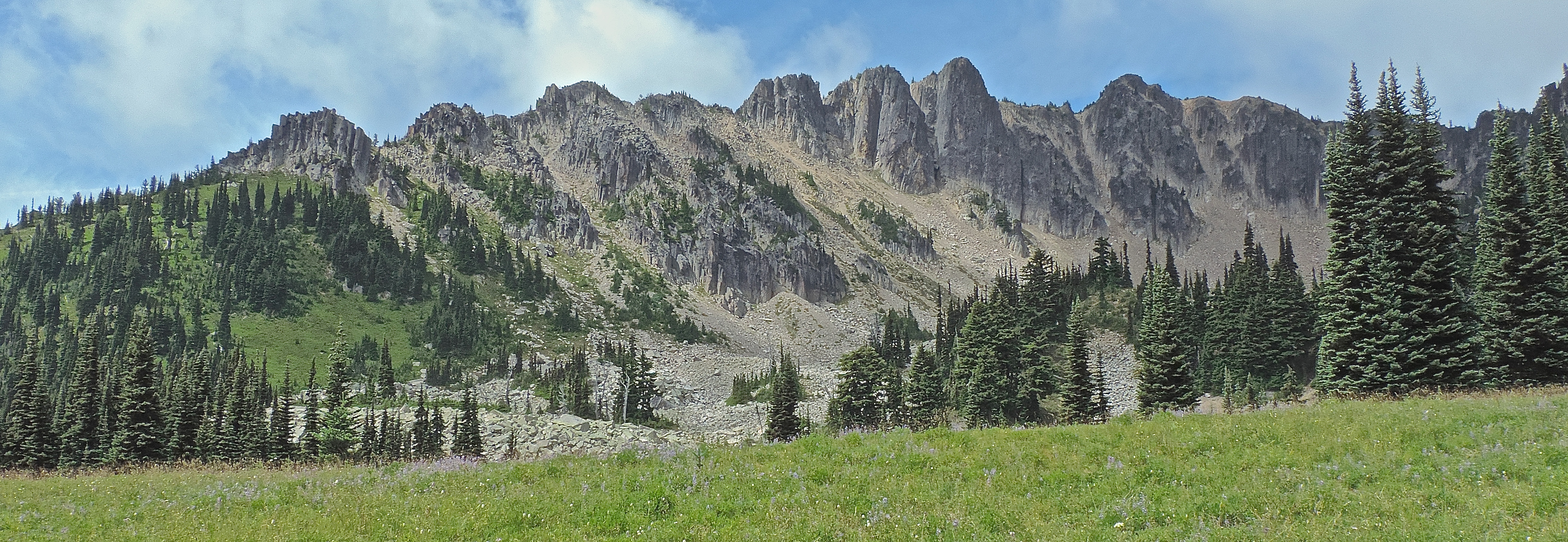 The Palisades in Mount Rainier National Park